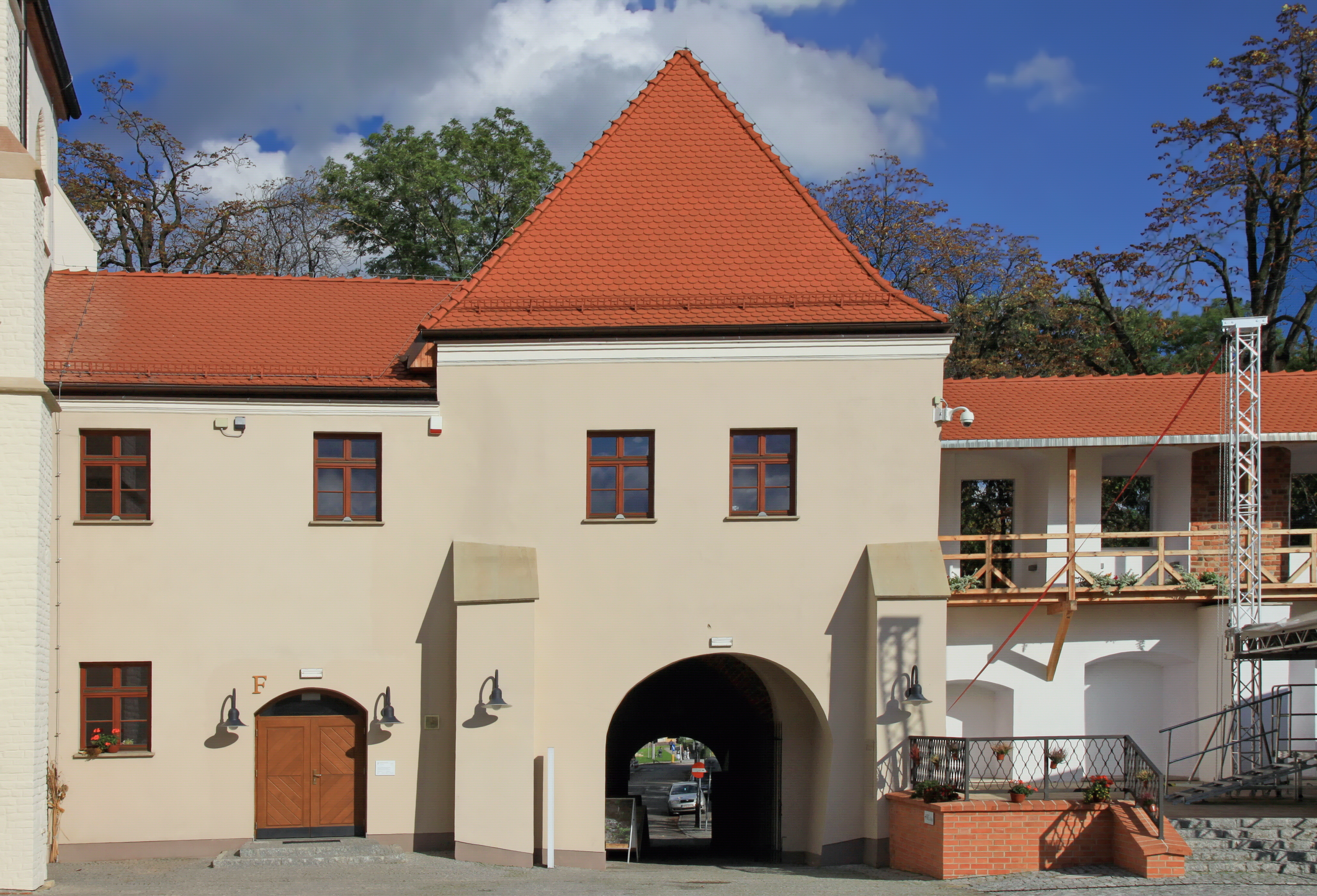 Racibórz, gatehouse of Racibórz Castle, build in 13th century, 16th century